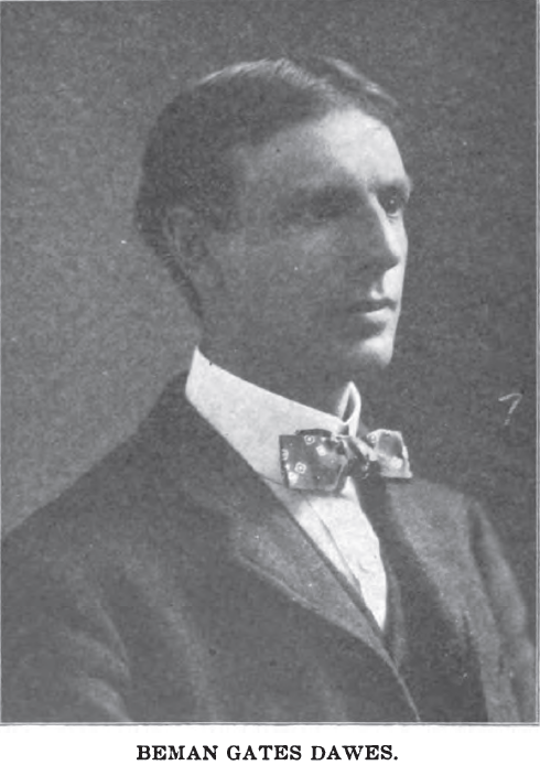 Ohio politician named Beman Gates Dawes